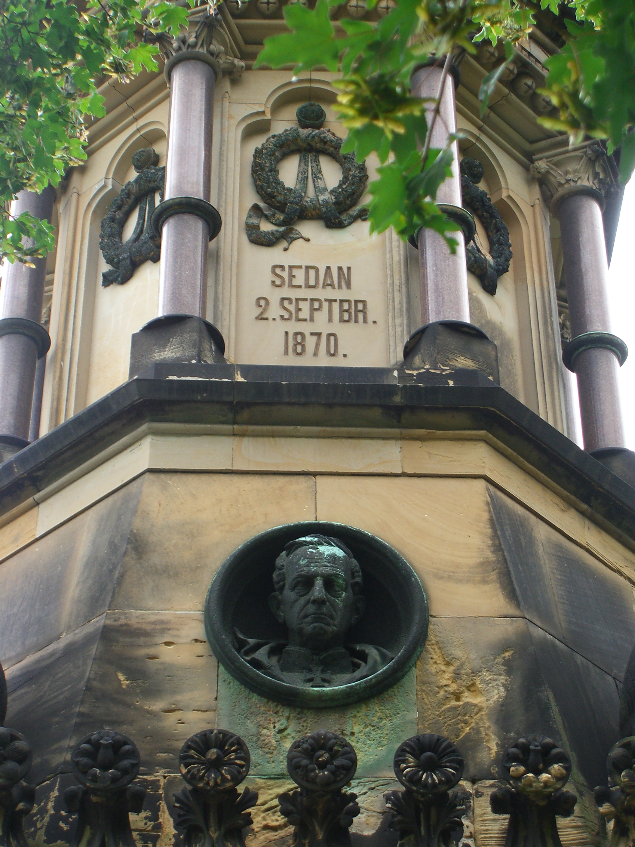 War memorial 1870/71 in Magdeburg, erected 1877, detail bust Helmuth von Moltke the Elder